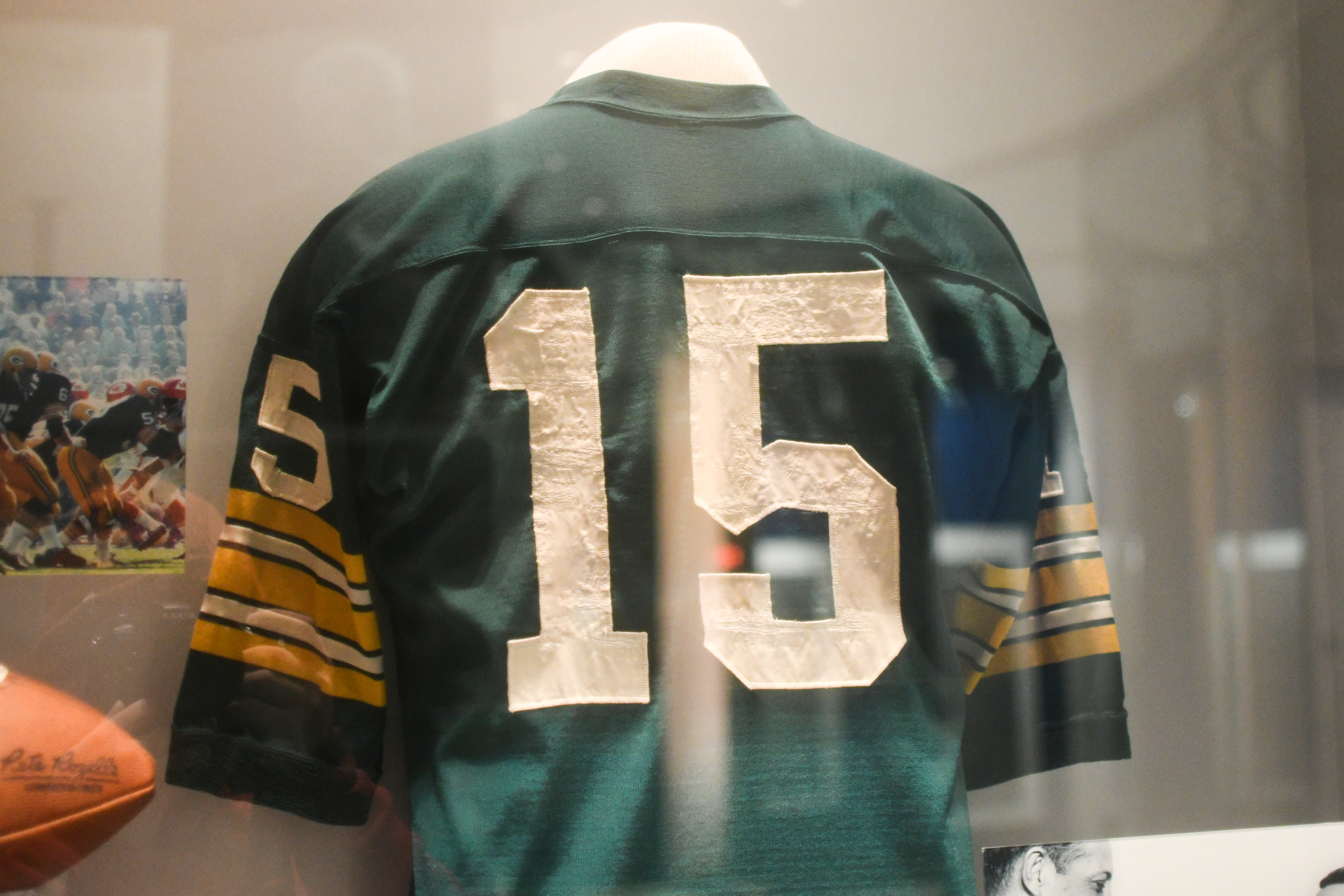 Packers QB Bart Star's #15 jersey at the Pro Football Hall of Fame